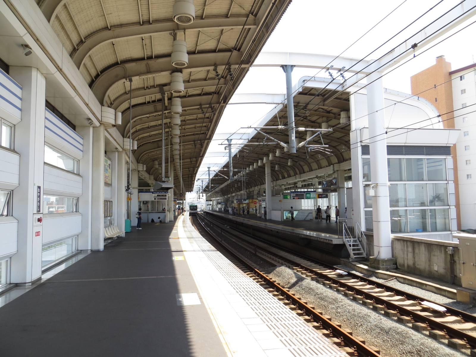 Platform in Neyagawashi Station.